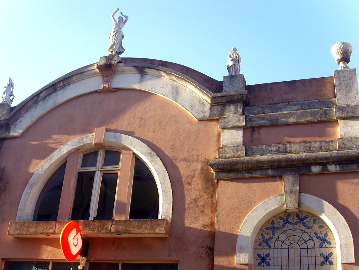 Old Theatre of Póvoa de Varzim in decay